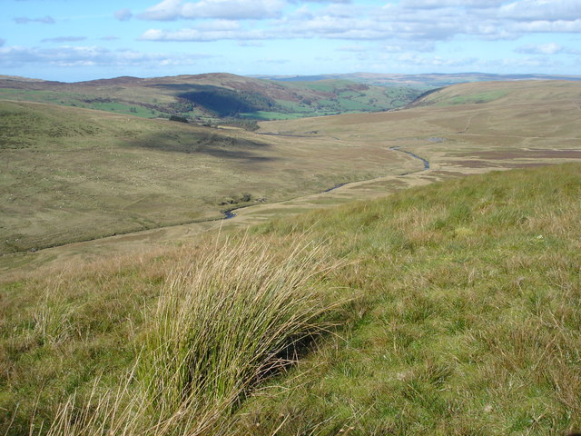 Moorland yields to valley From the slopes of Foel Wen looking down the Afon Serw, the moorland of the Migneint leads to the promise of the Vale of Conwy.